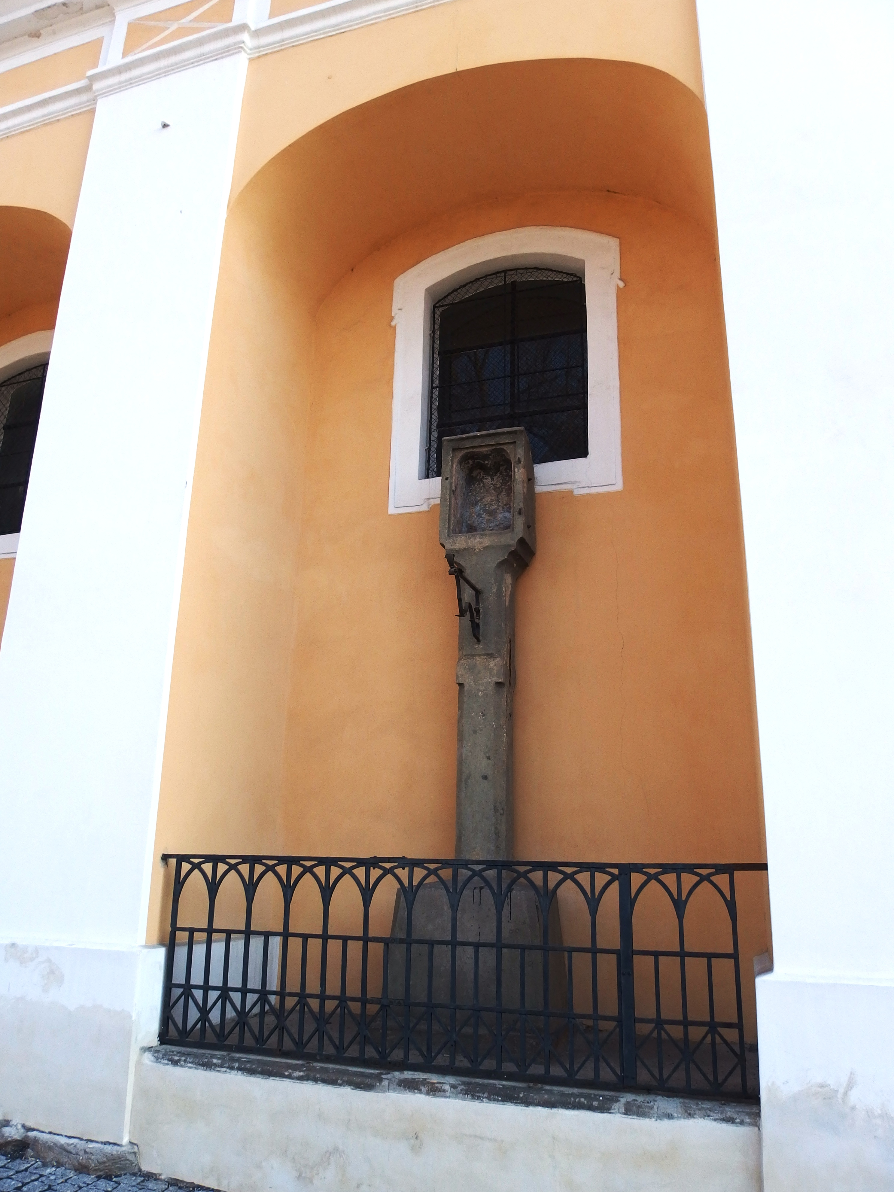 Kadaň, Chomutov District, Czech Republic. Löschnerovo náměstí square.